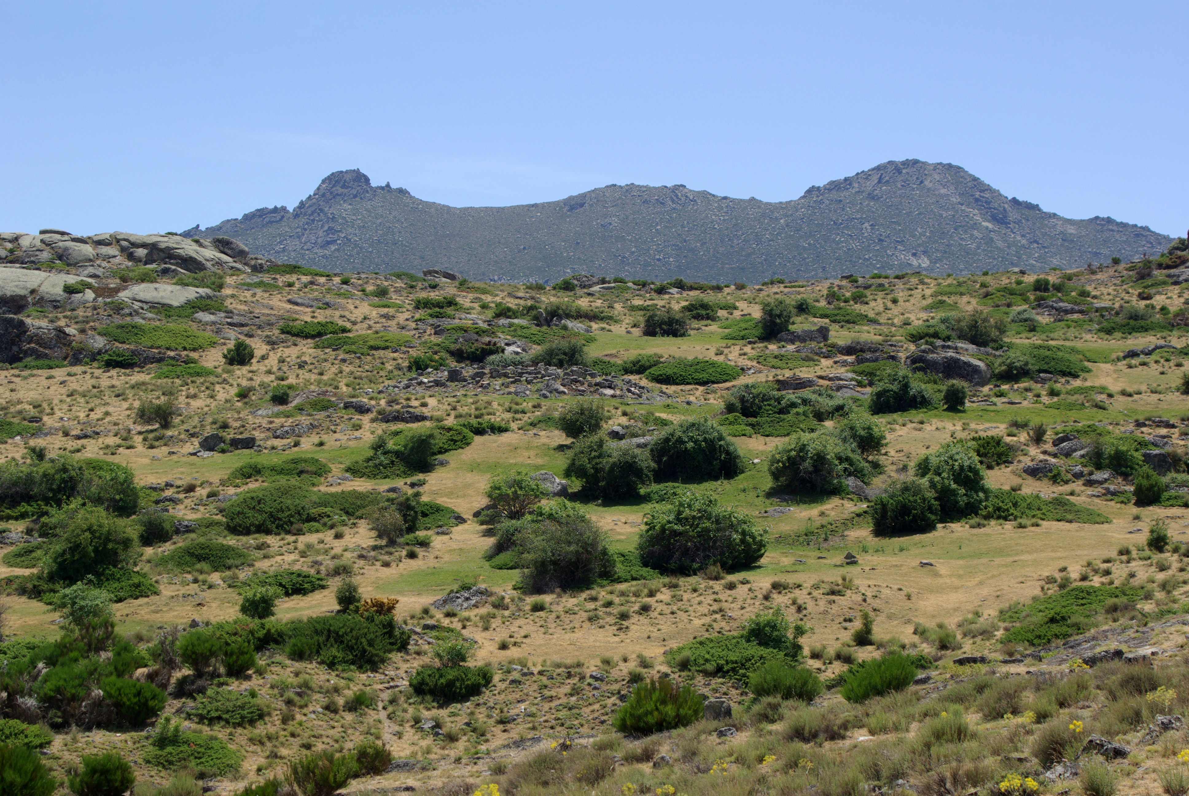 Landscape of Ulaca with Zapatero and Risco del Sol peaks. Villaviciosa (Solosancho, Ávila, Spain)